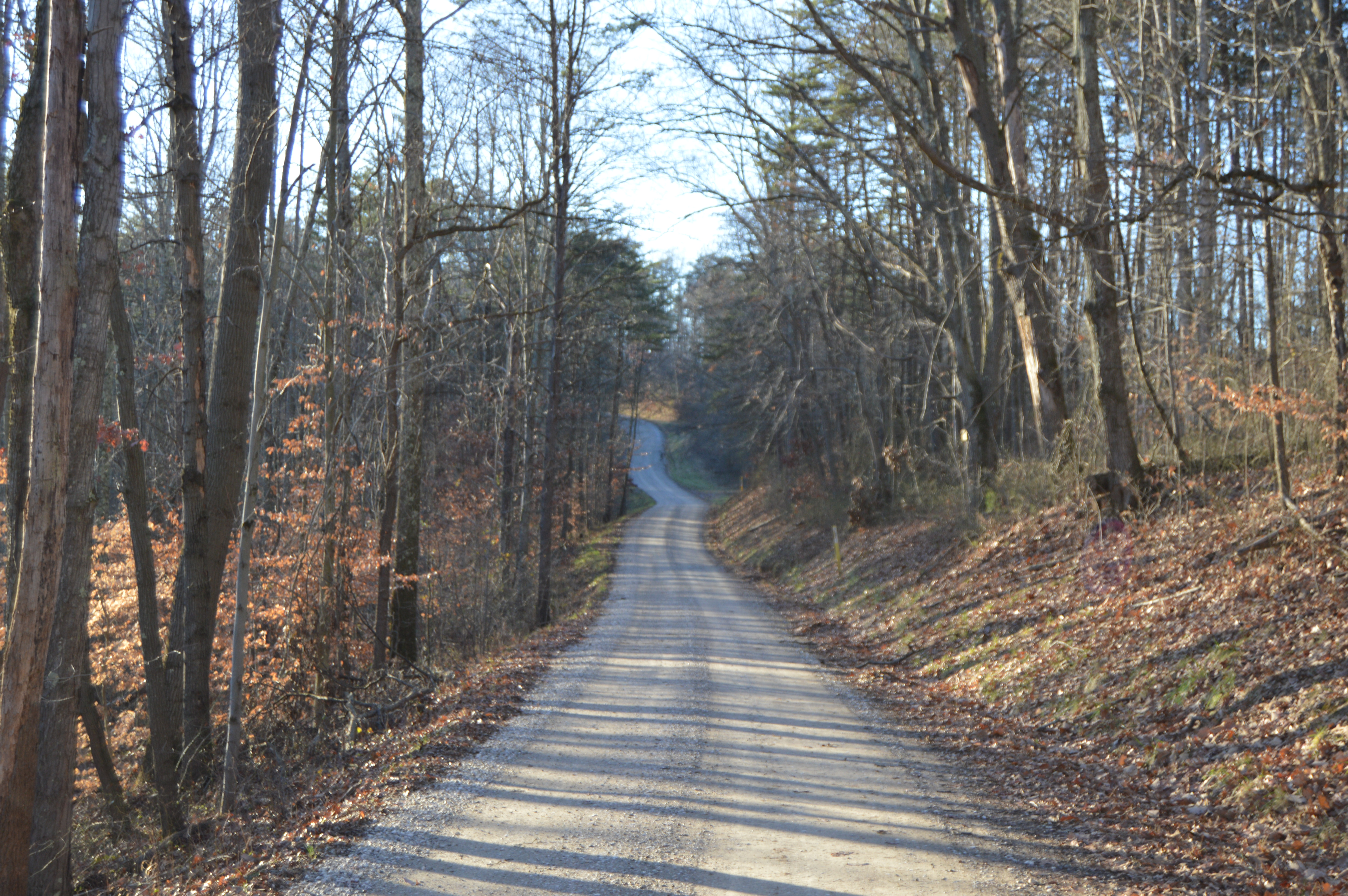 Looking west on Wiley Road just southwest of Glass in western Grandview Township, Washington County, Ohio, United States.